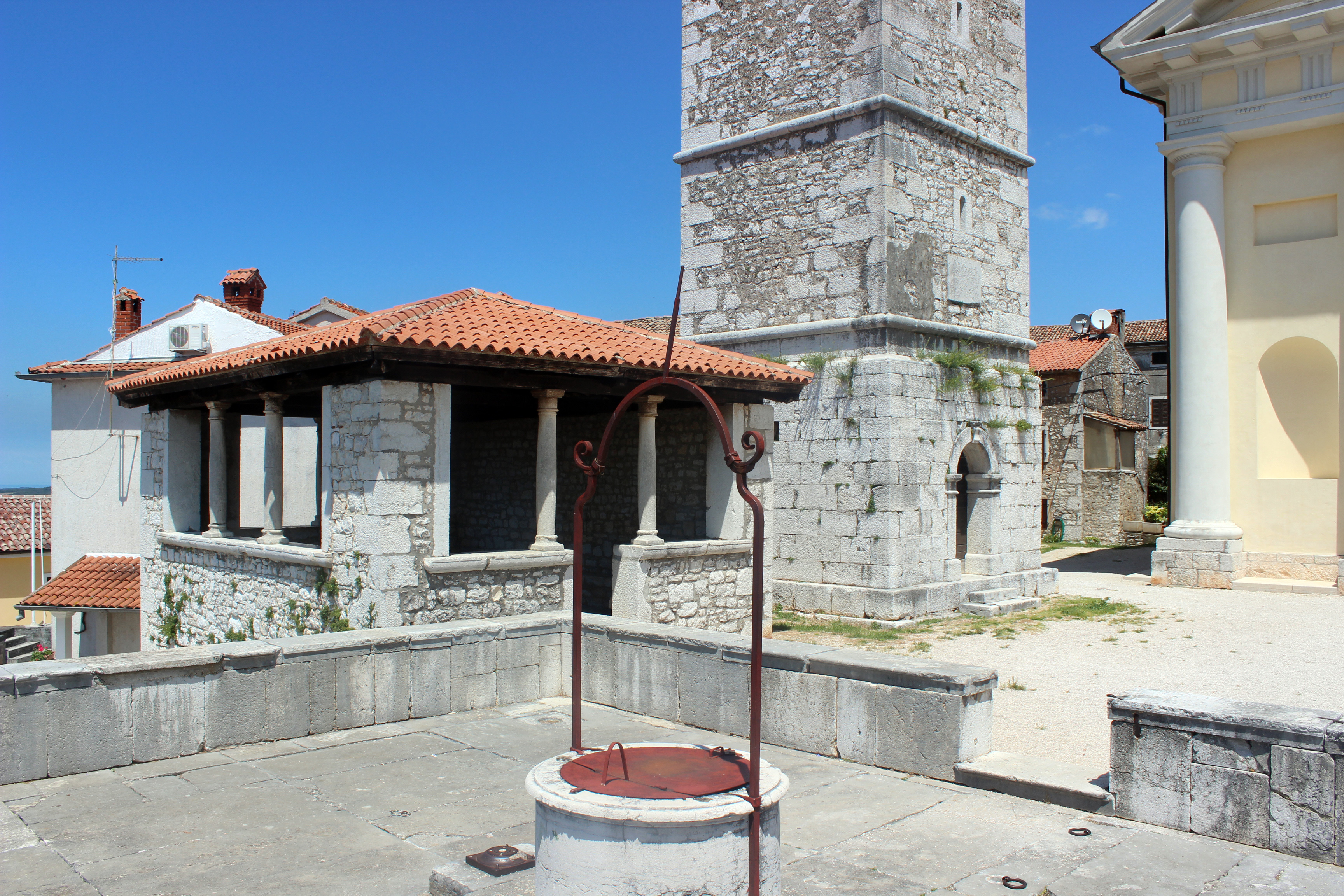 Venetian loggia, with well, on the main square, in Višnjan, Croatia